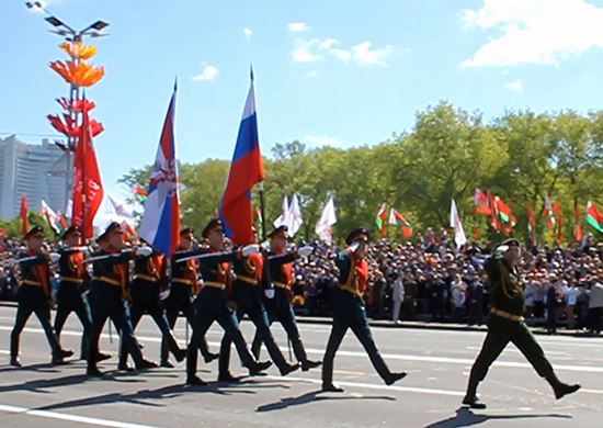 В период с 29 марта по 10 мая военнослужащие 1 роты Почётного караула тренировались и участвовали в Параде Победы в республике Беларусь, проходившим в городе - герое Минске